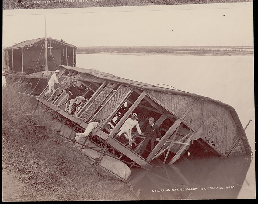 "A floating dâk-bungalow in difficulties". Assam, British India.